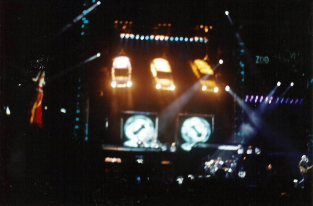 Picture of the Zoo TV Tour stage during the 15 May 1993 U2 concert in Lisbon, Portugal